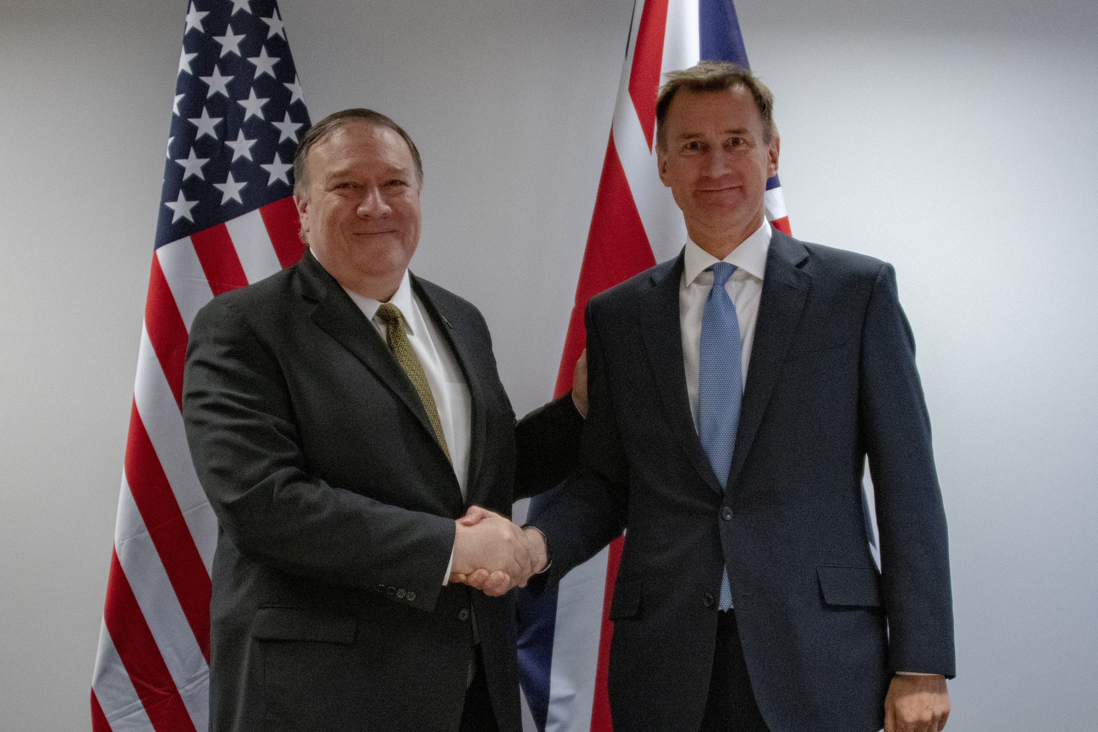 U.S. Secretary of State Michael R. Pompeo meets with United Kingdom Foreign Minister Jeremy Hunt at the Justus Lipsius EU Council Building in Brussels, Belgium on May 13, 2019. [State Department photo by Ron Przysucha/ Public Domain]